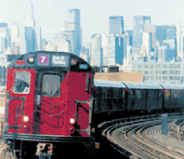 Red bird 7 train. R36 7 local northbound at 33rd Street-Rawson Street